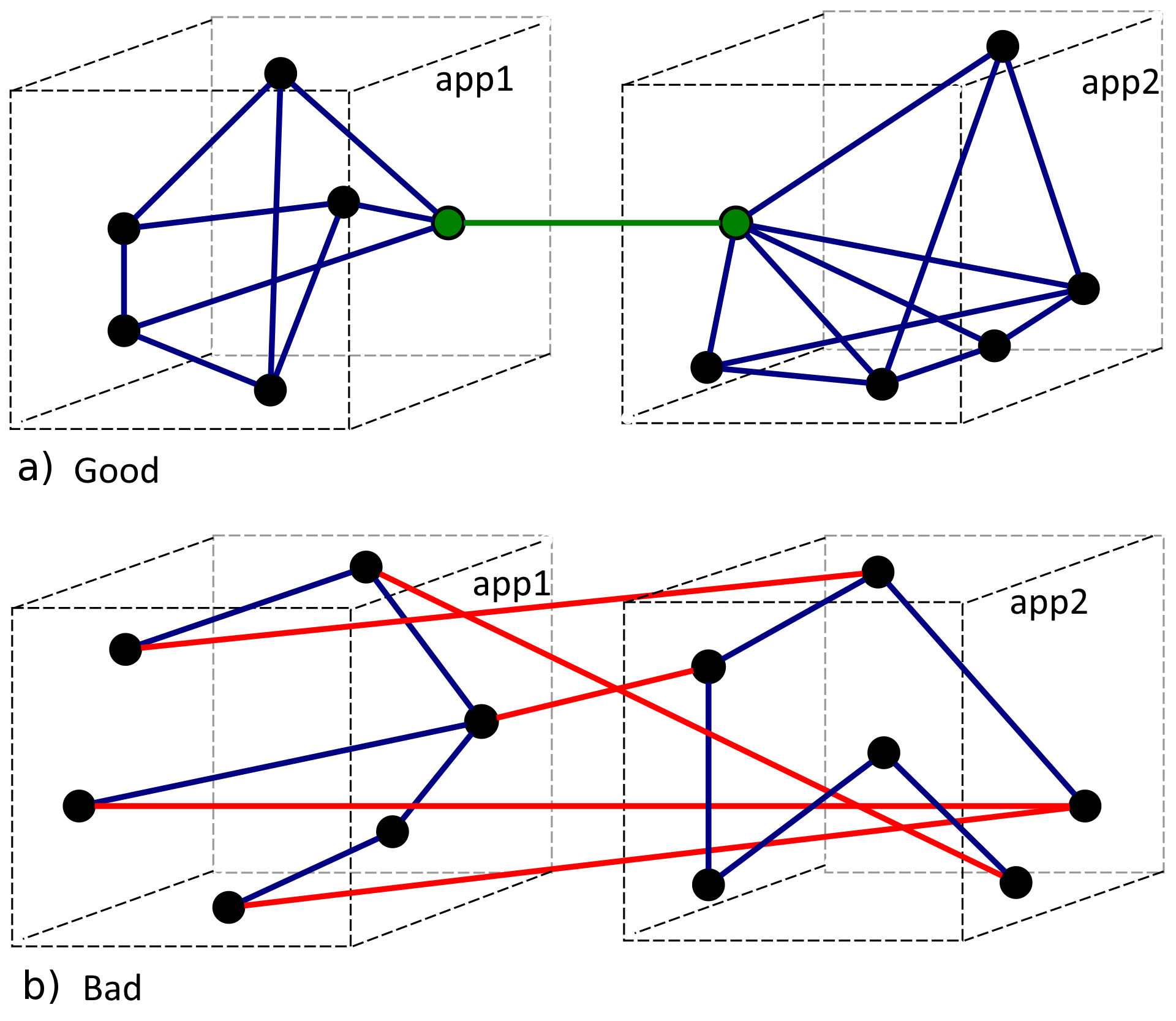 Good, bad apps